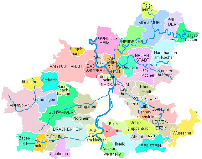 This map gives an overview over the Städte (towns) and Gemeinden (municipalities) in the Landkreis (district) Heilbronn, Baden-Württemberg, Germany.